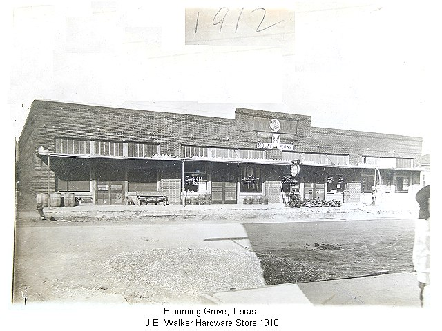 Walker's Hardware Store Fordyce ST Blooming Grove Texas Originally the Masten-Smith Hardware Store. Name changed to Walker -Langston Hardware in 1920